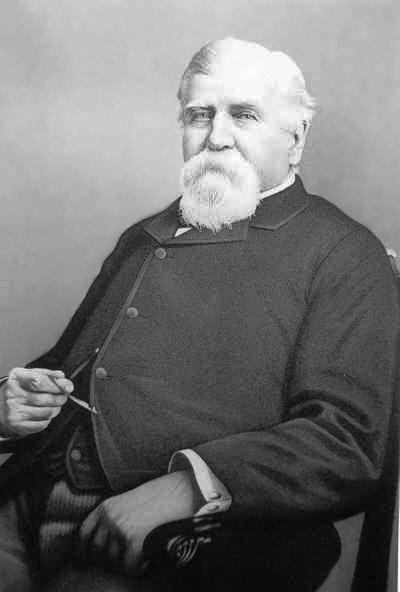 Portrait of industralist Robert Knight, co-founder of textile company Fruit of the Loom.